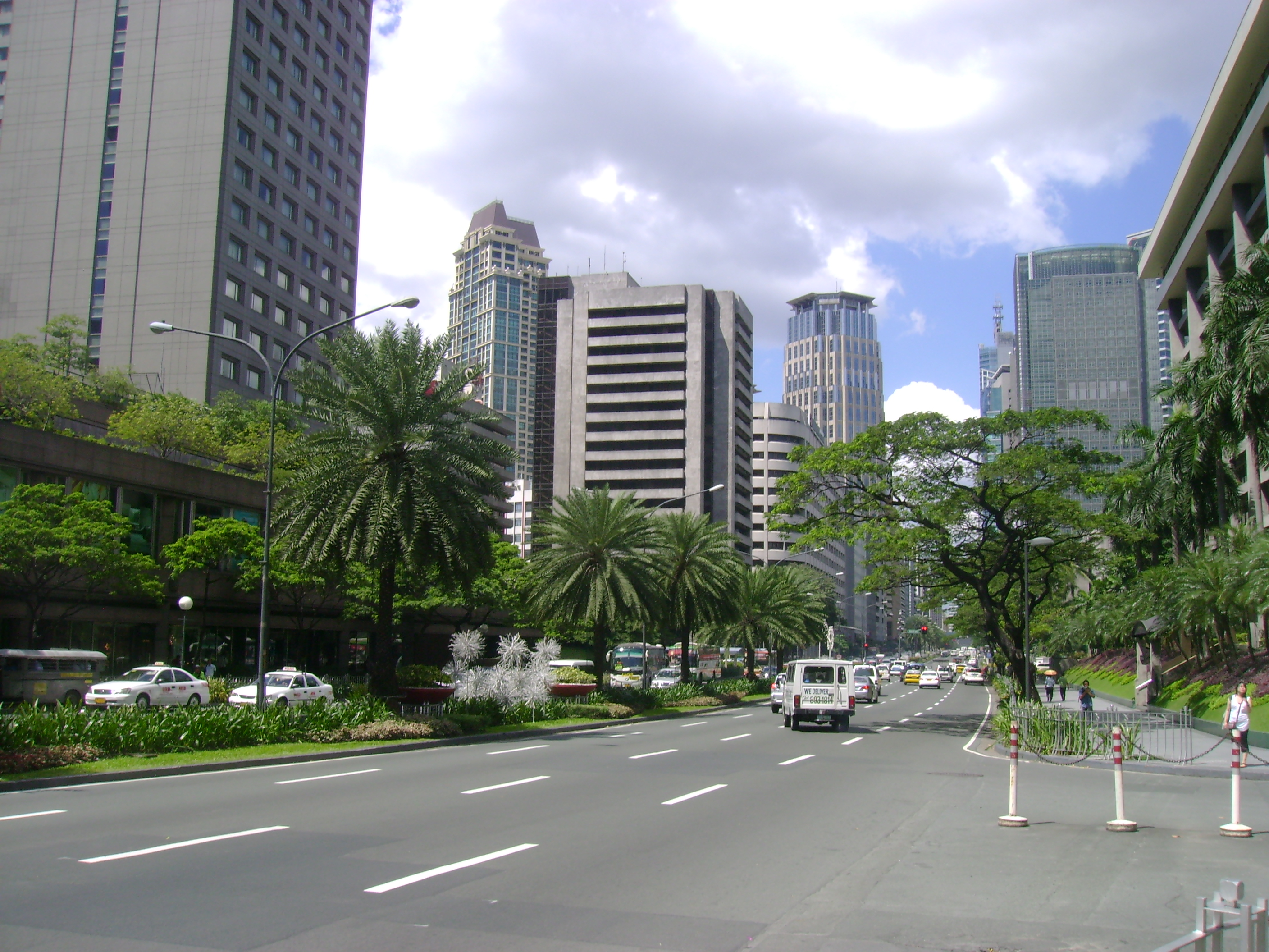 ayala avenue in makati city, metro manila; near glorietta